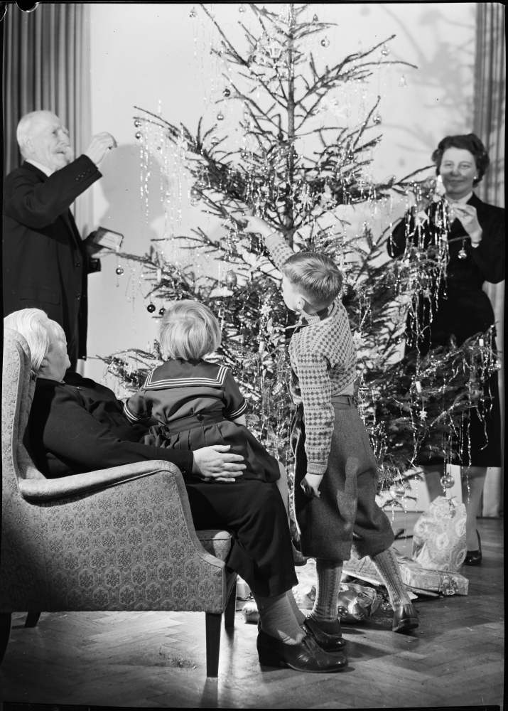 Danish christmas KB id: turck_58759 Photo: Sven Türck (1897-1954) Department of Maps, Prints and Photographs, The Royal Library, Denmark.